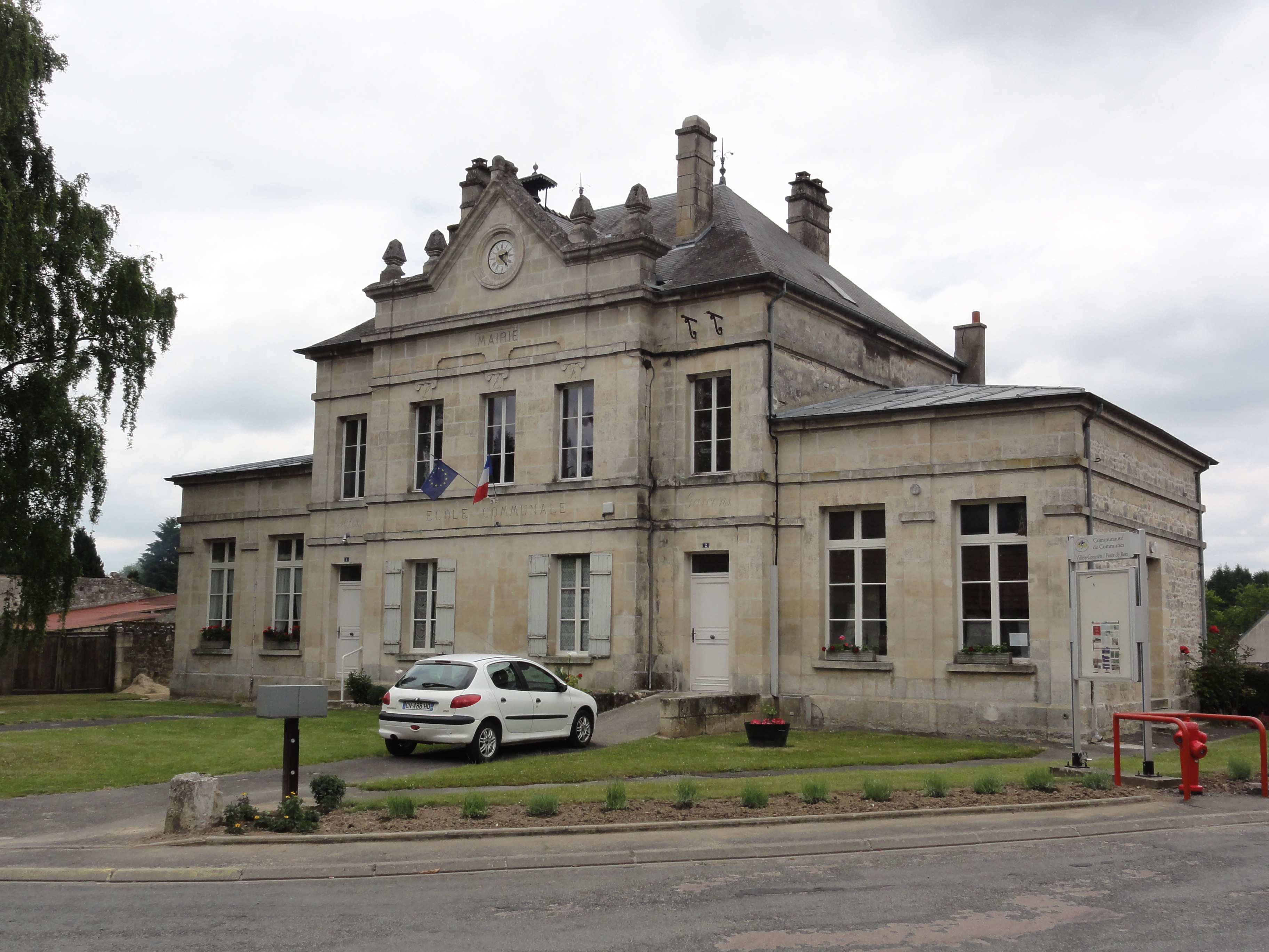 Vivières (Aisne) mairie-école